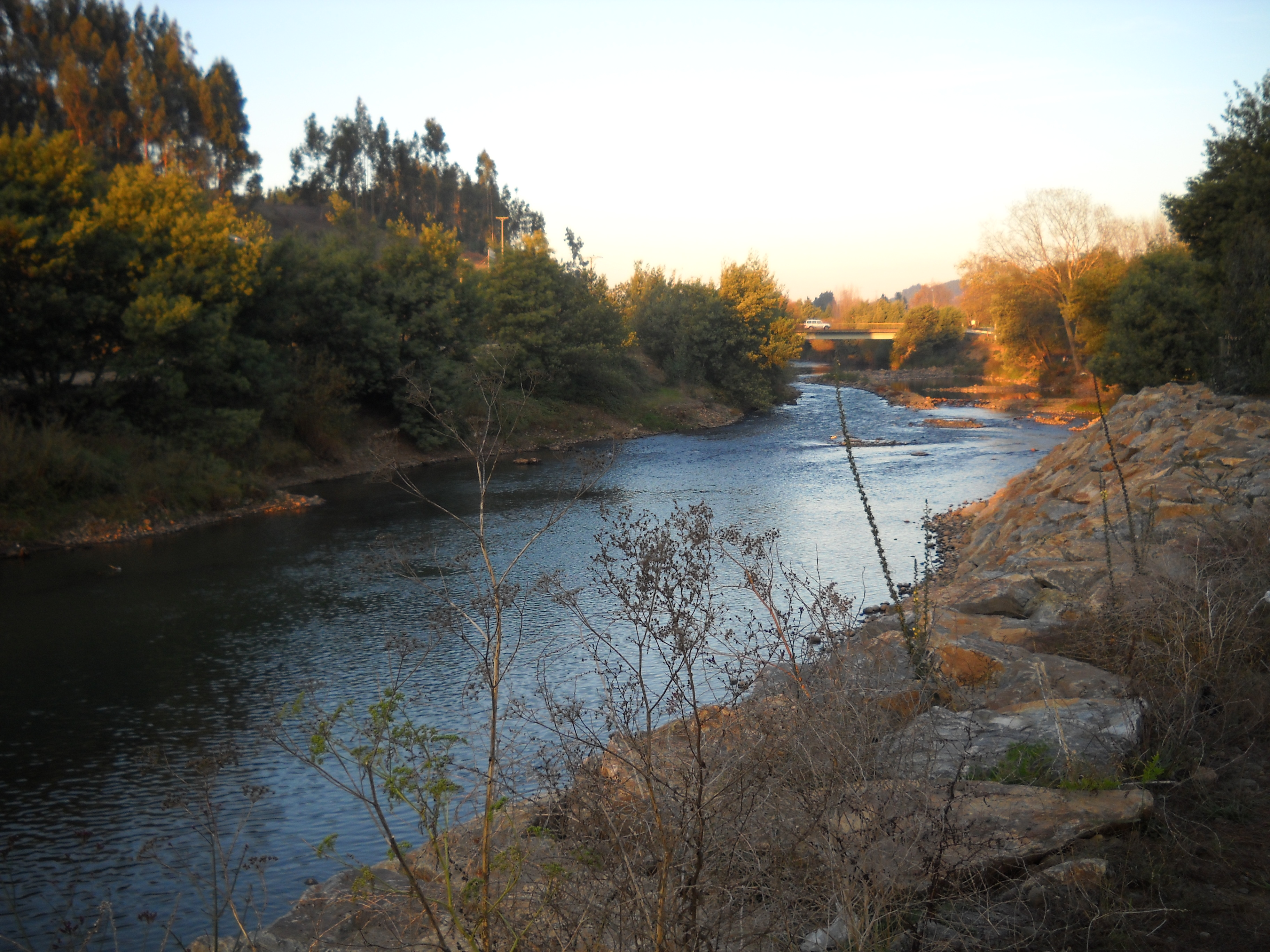 Quillén river in Galvarino.